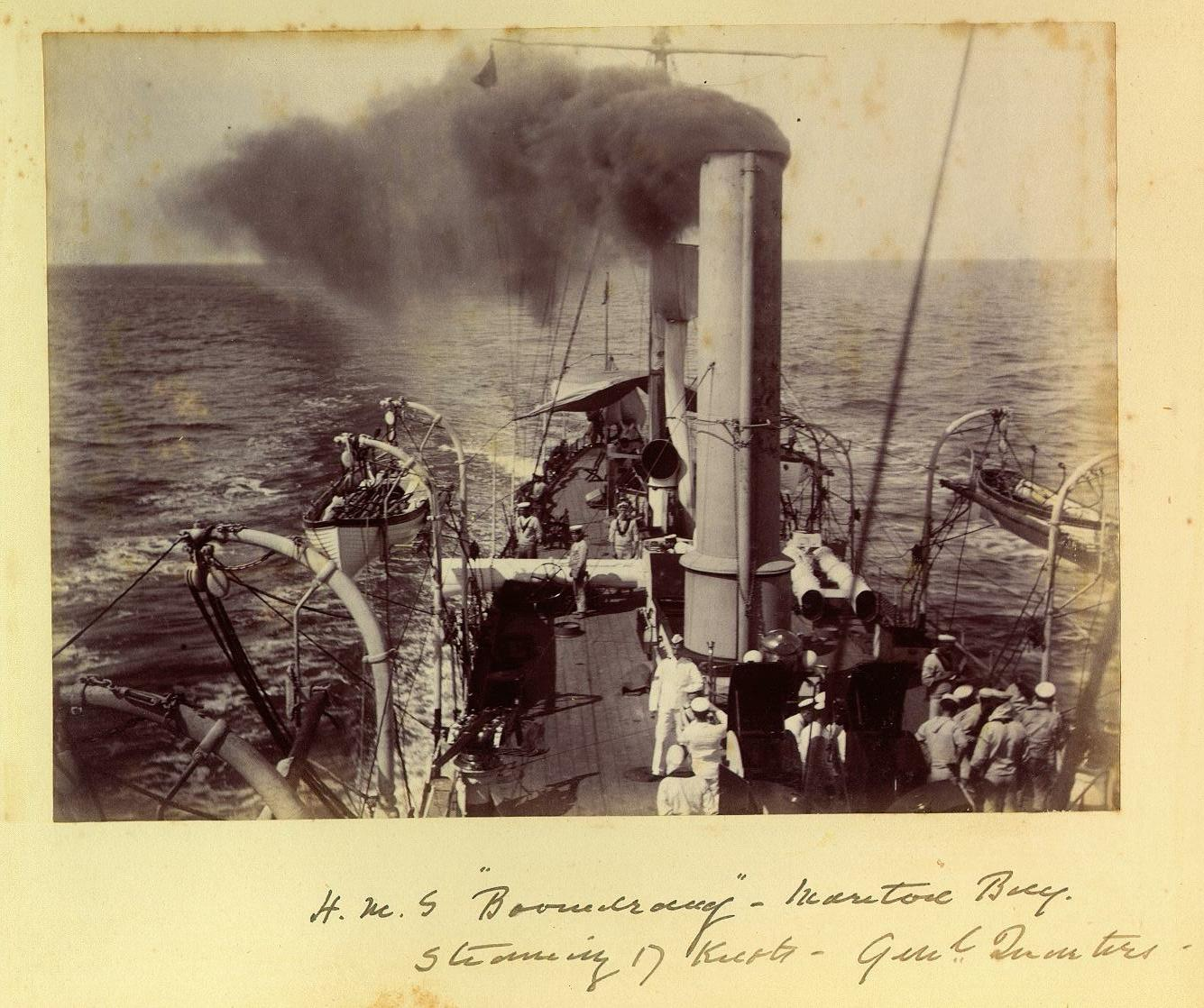 Photograph aboard HMS Boomerang "steaming 17 knots" in Moreton Bay, Queensland.